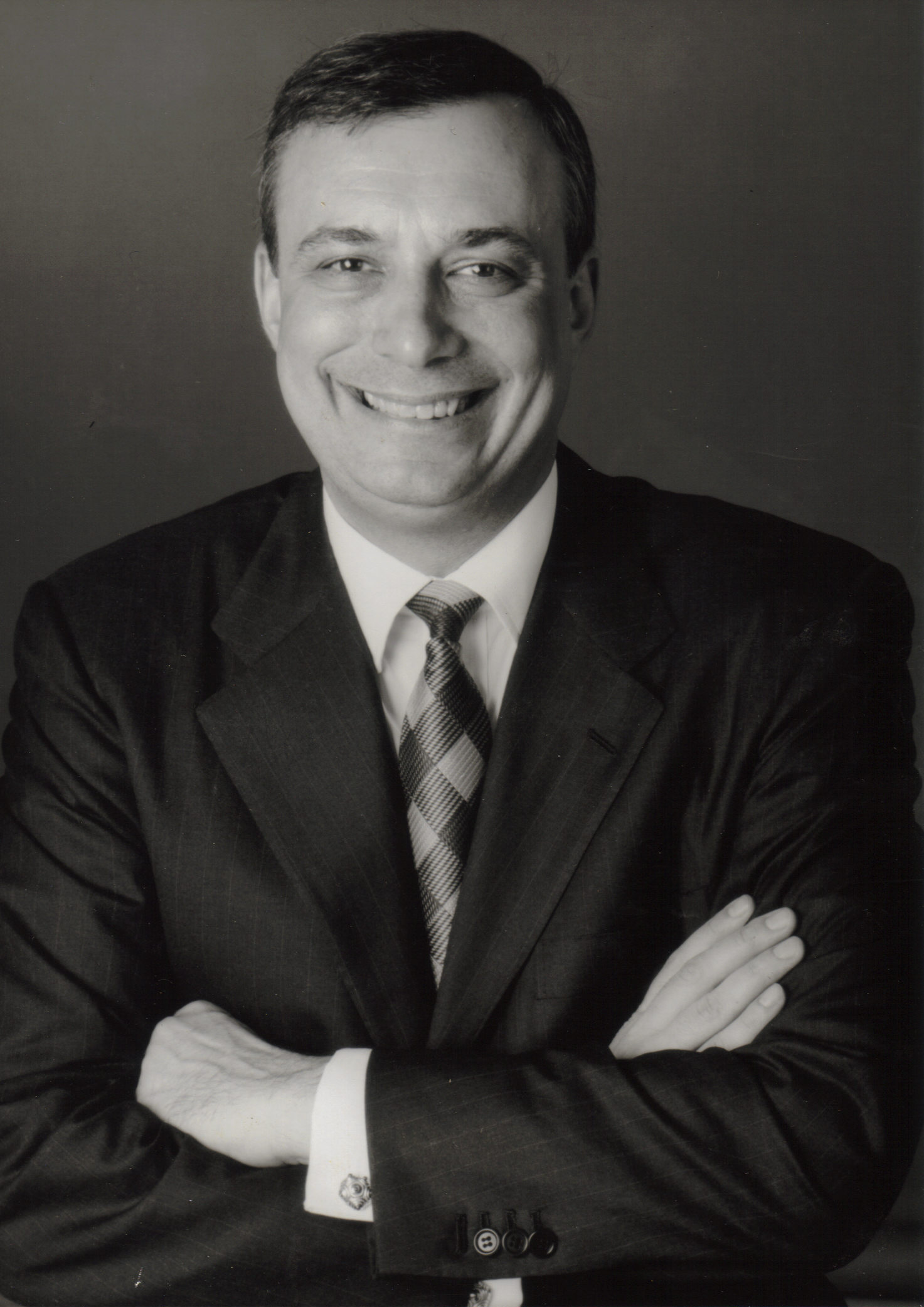 Mallory Factor's business photo